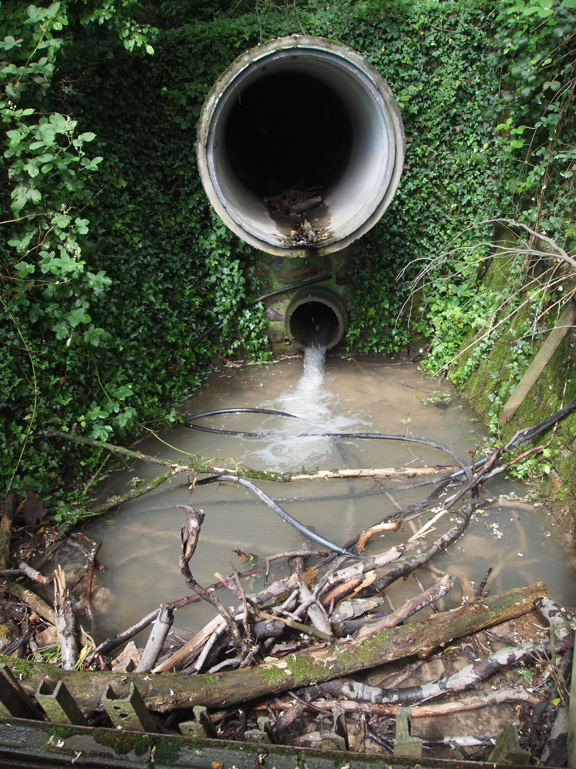 Flood retention basin at the Mantelbach above the quarries of Dossenheim, Tosbecken with pipes from the bottom outlet and the overflow